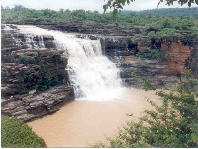 Karkat waterfall is located near in Kaimur Hills in the Kaimur district, Bihar, India